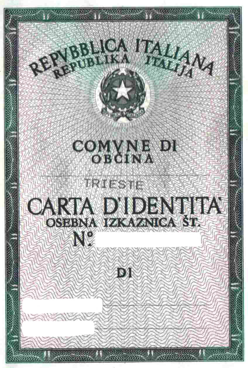 Province of Trieste bilingual (italian-slovenian) identity card